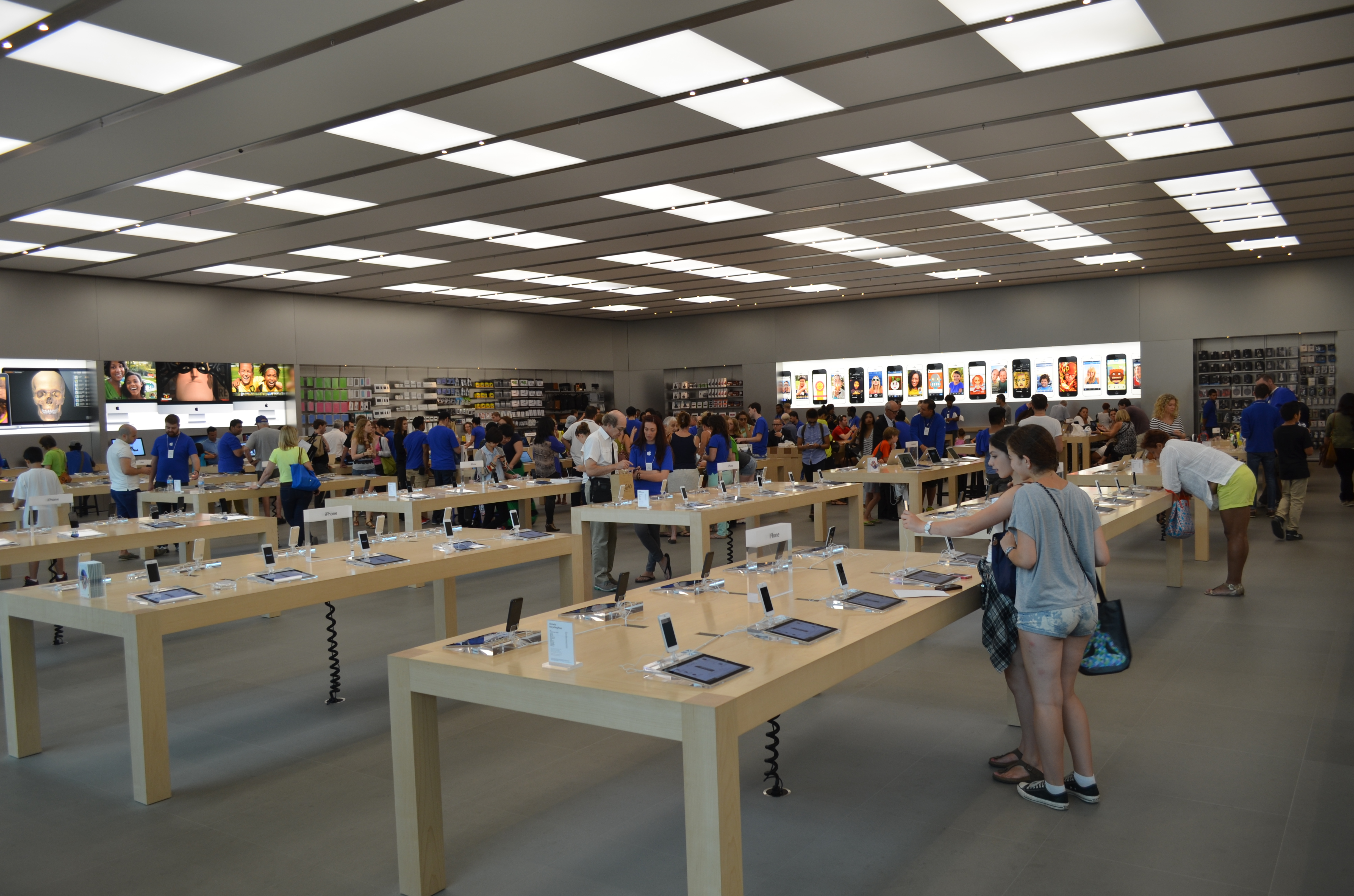 Apple Store Yorkdale